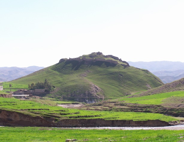 posht ghale of abdanan city